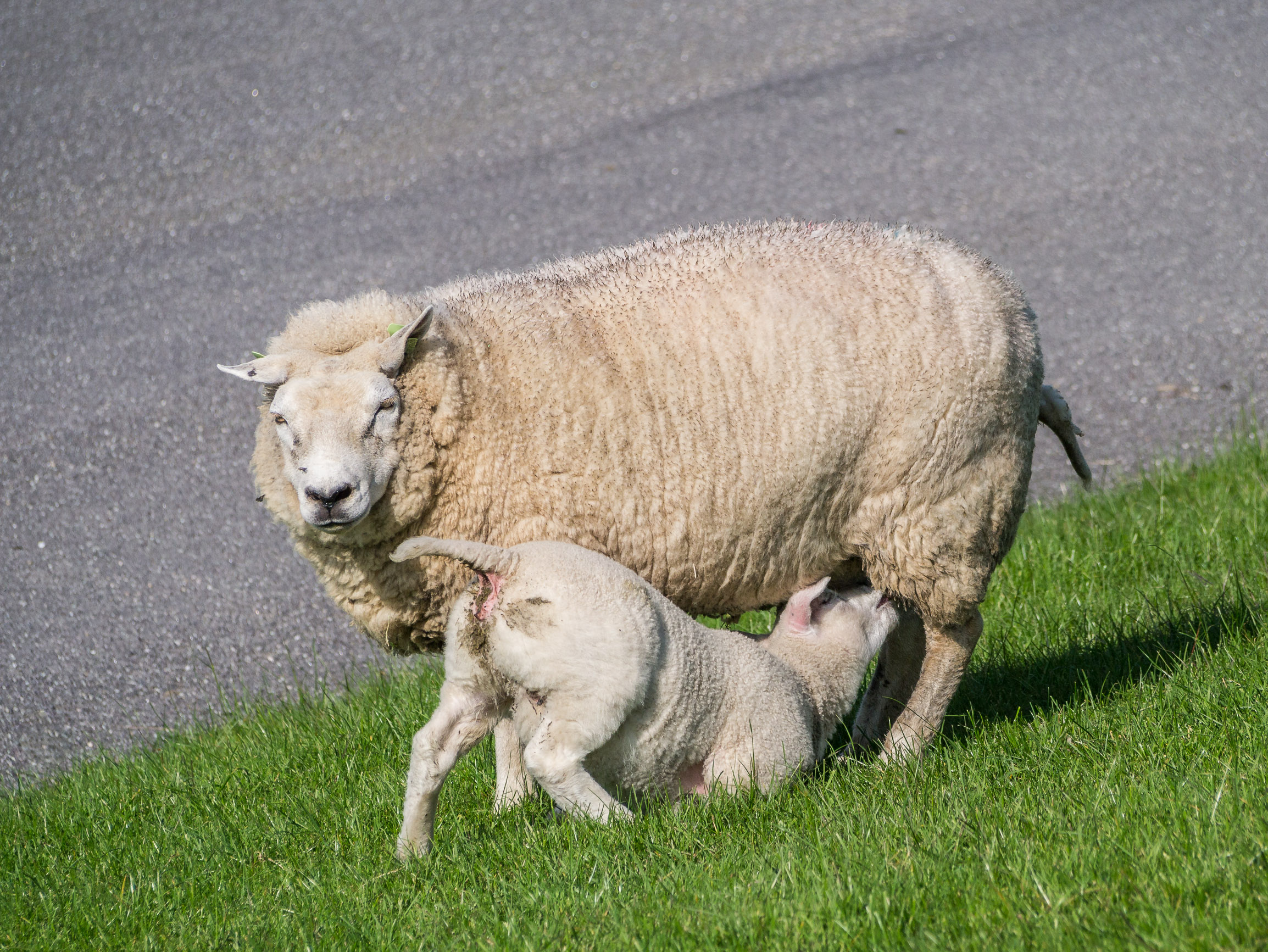 Lamb drinking